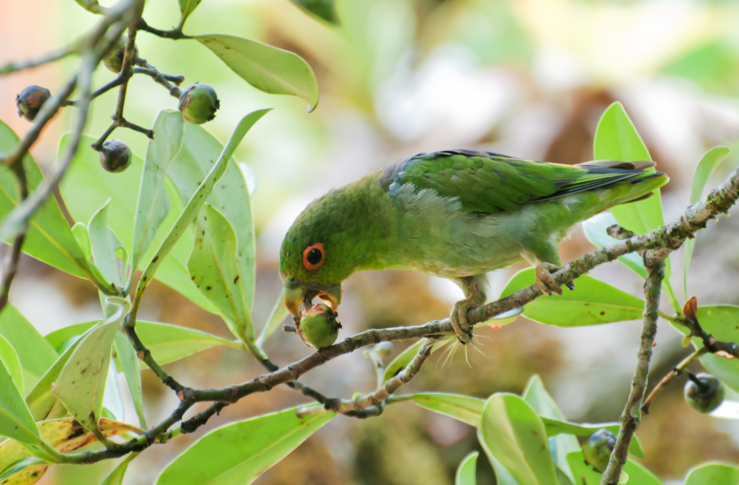 A Brown-backed Parrotlet in Ubatuba, São Paulo, Brazil.